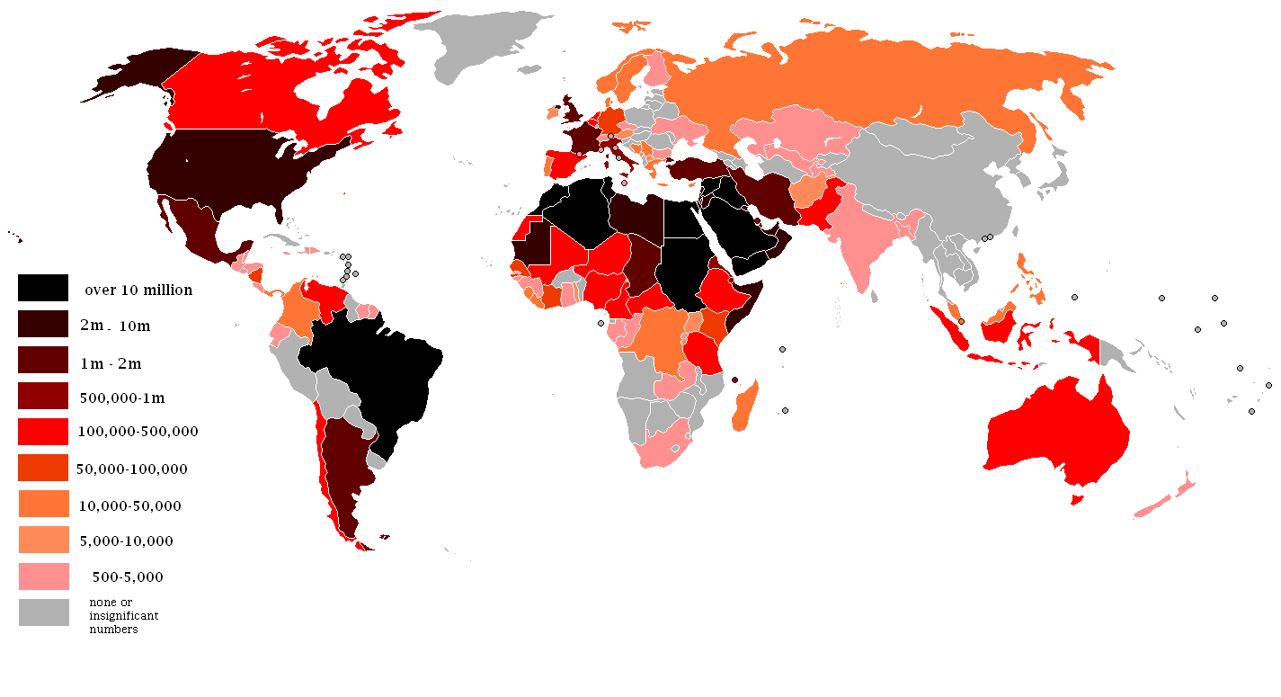 Map showing Arabs outside Arab countries